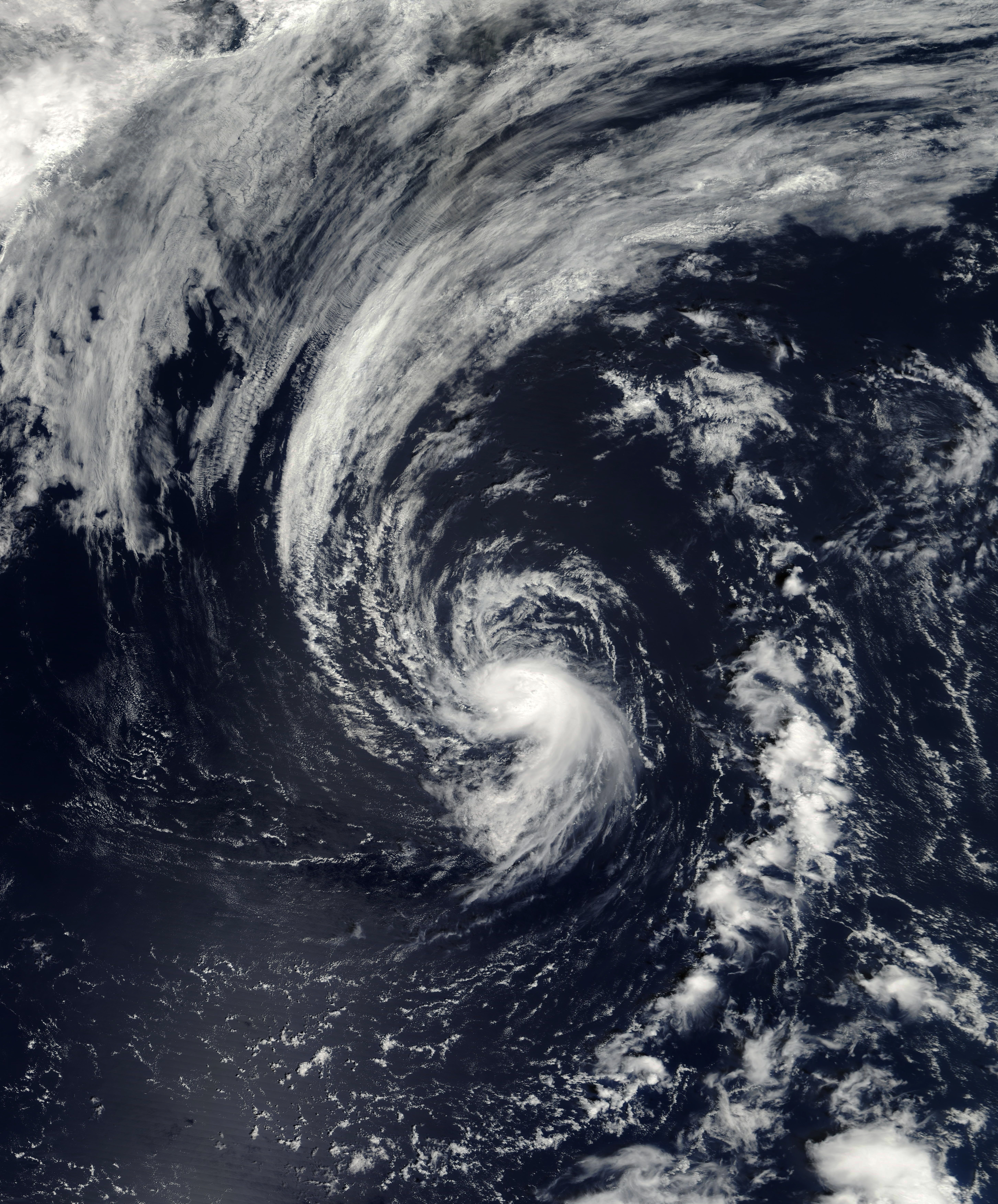 Tropical Storm Fausto on September 1, 2002